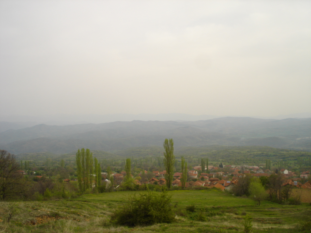 village of Blatec near Vinica, Macedonia